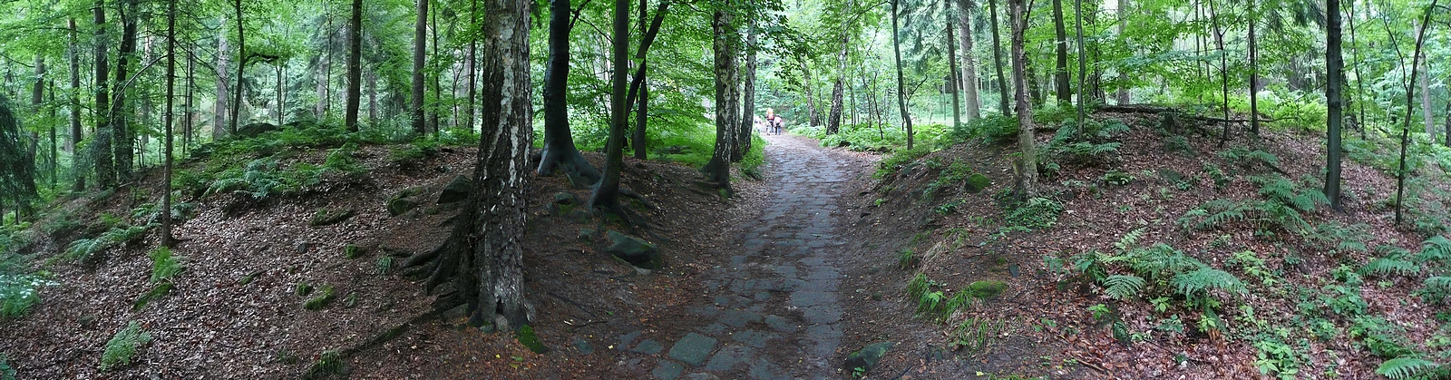 Pfaffenstein: semi-circular rampart, dating to the Bronze Age, on the western side of the Pfaffenstein.